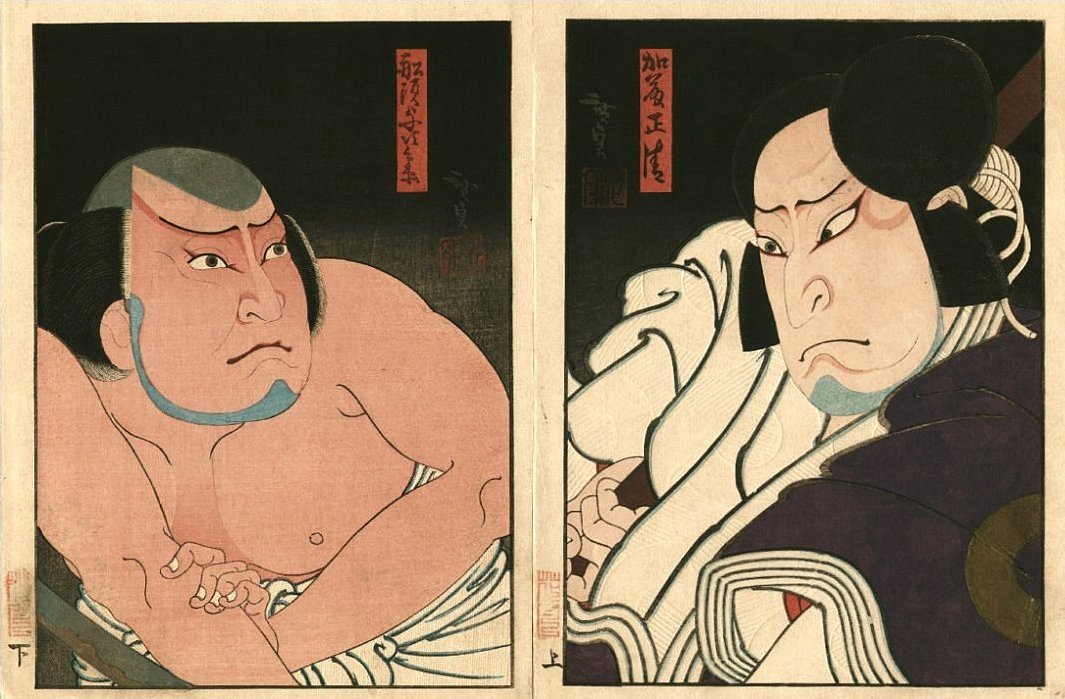 Woddblock diptych by Hirosada I showing actors Nakamura Utaemon IV as Katô Masakiyo (right) and Nakamura Tomosa II as the boatman Yojibei (left) in the kabuki play Keisei Kiyome no Funauta, (1)1851